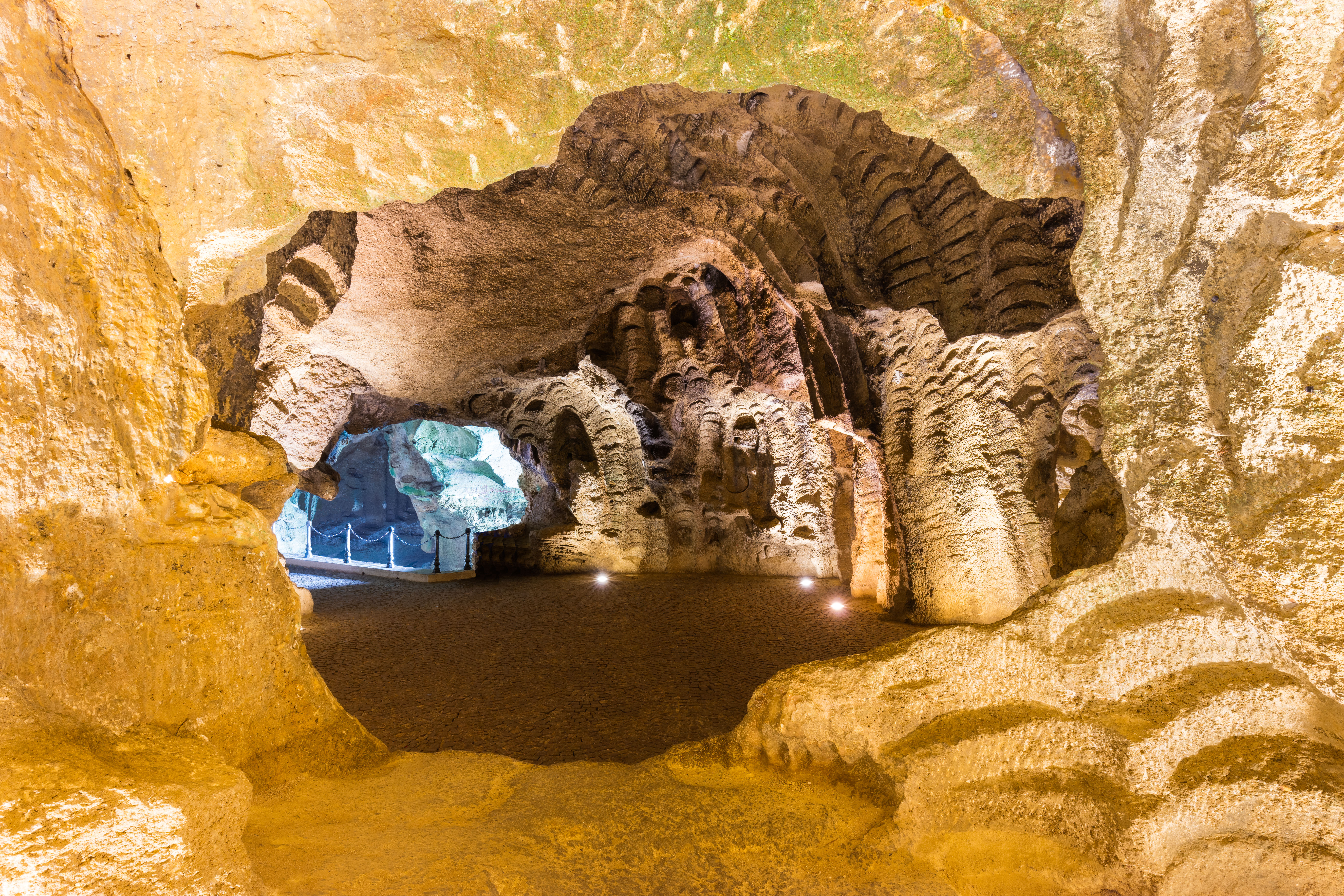 Caves of Hercules, Cape Spartel, Morocco